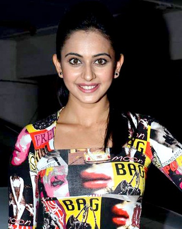 Actress Rakul Preet Singh at Baqar's spinnathon in January 2014 during the promotions of Yaariyan (2014).